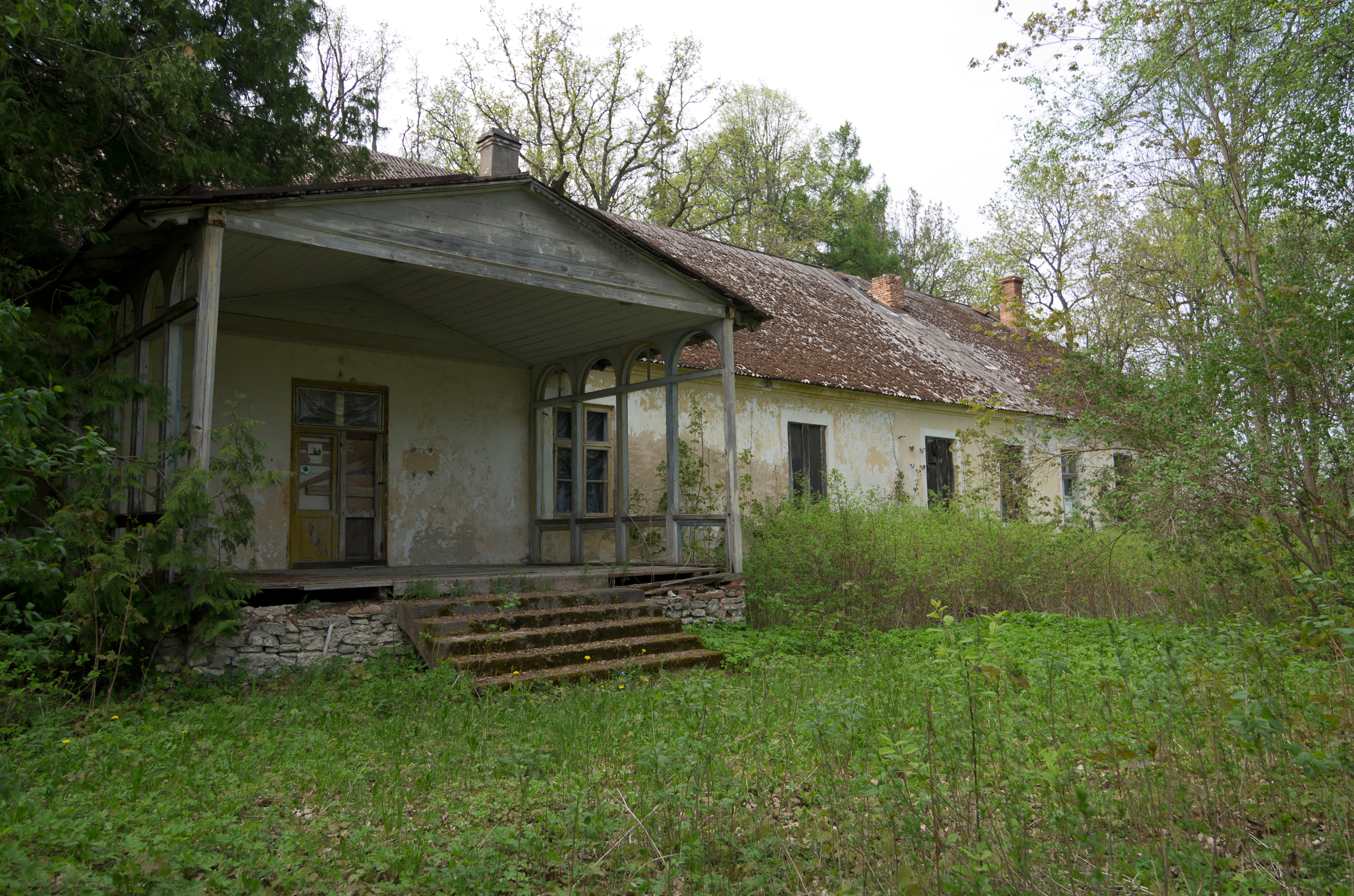 Front side of Tapiku Manor House